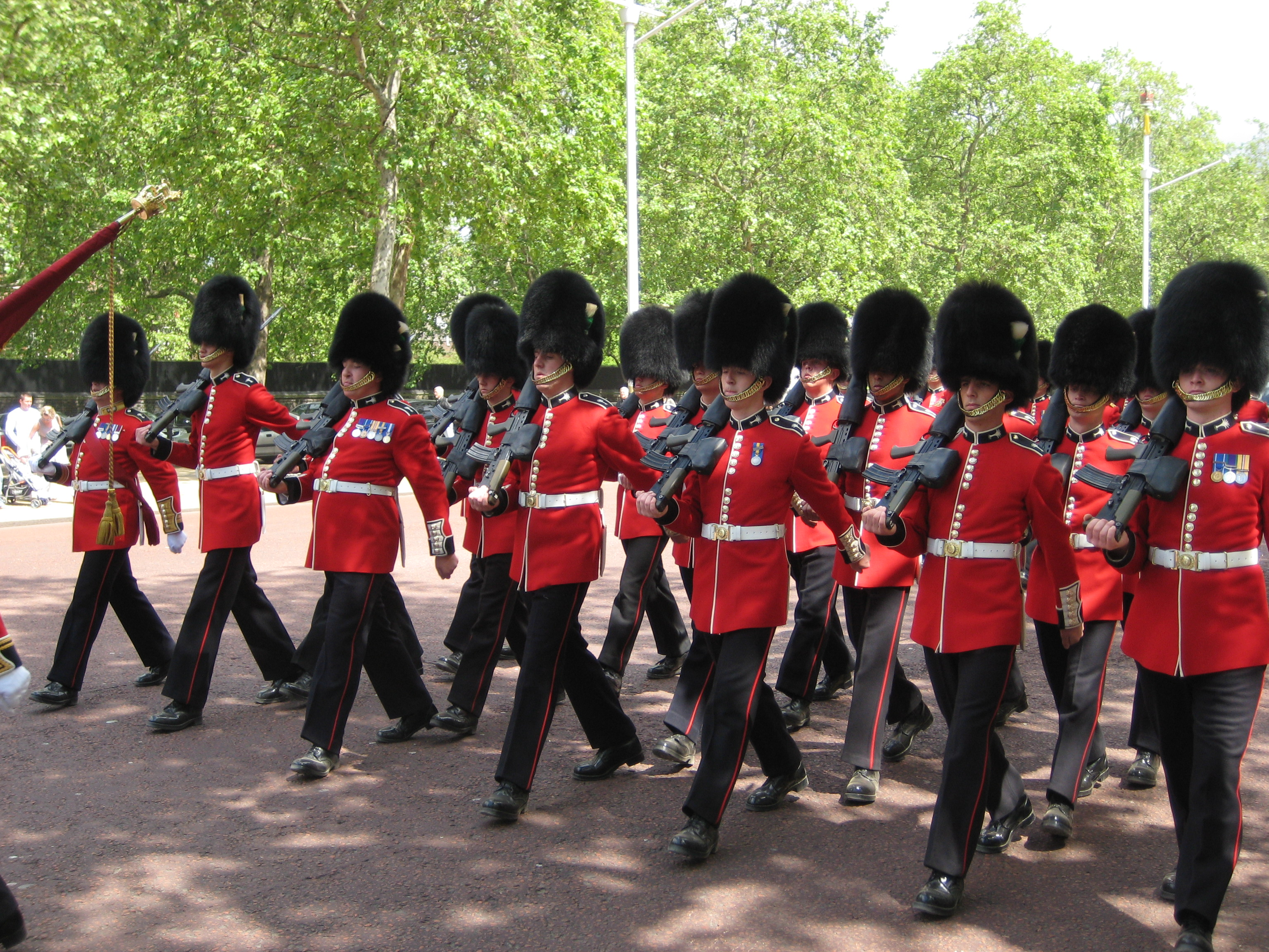 Soldiers of the Welsh Guards march up the Mall to change the guard at Buckingham Palace.